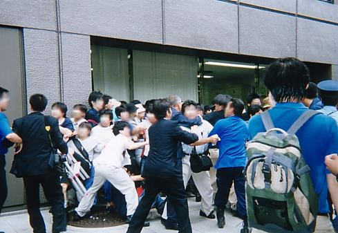 Fight between ultra-left and ultra-right